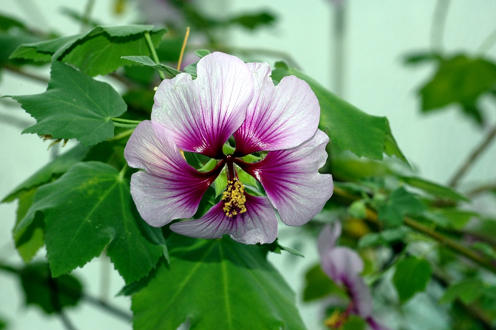 Lavatera maritima, Botanical Garden Berlin, Germany